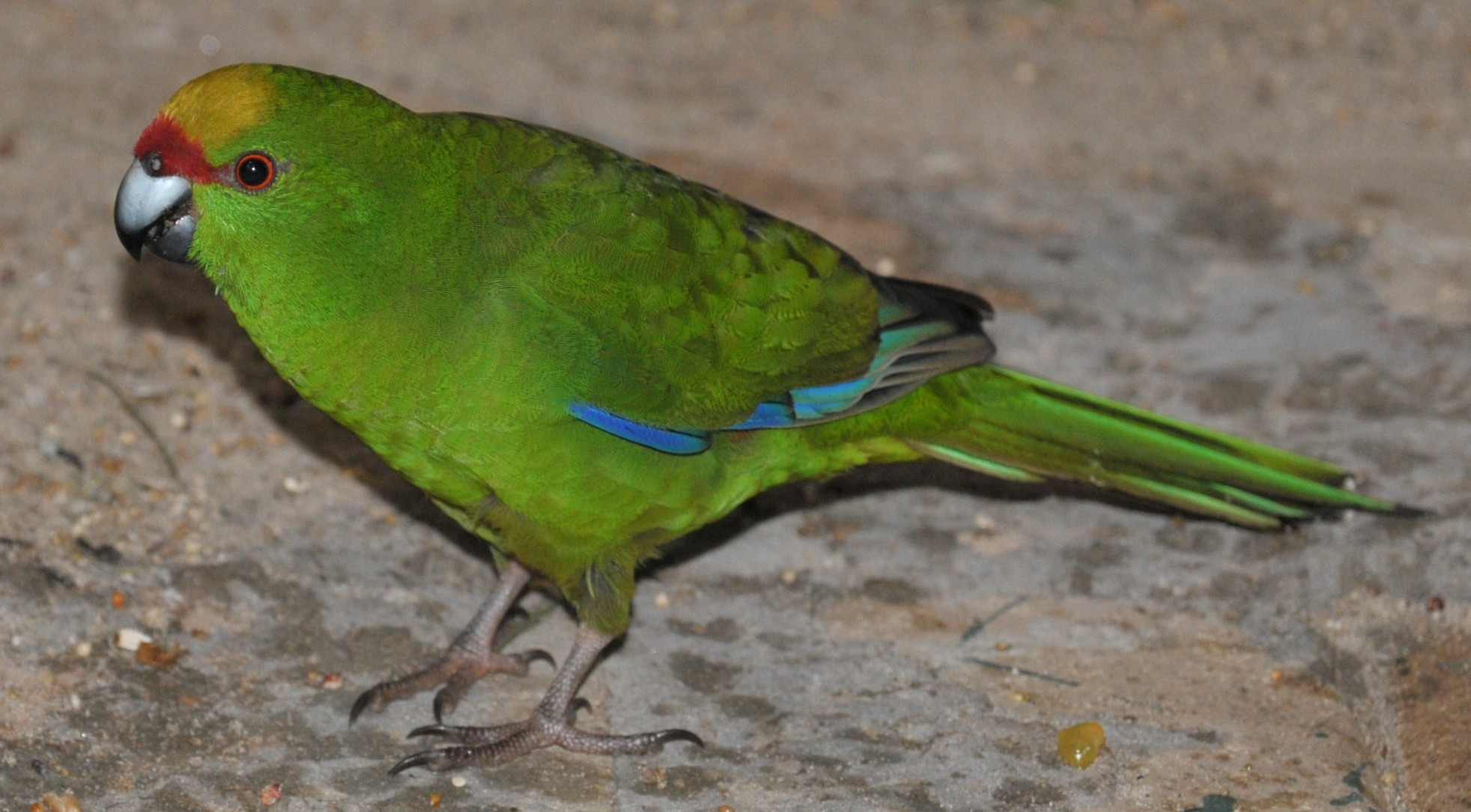 A captive Yellow-crowned Parakeet.